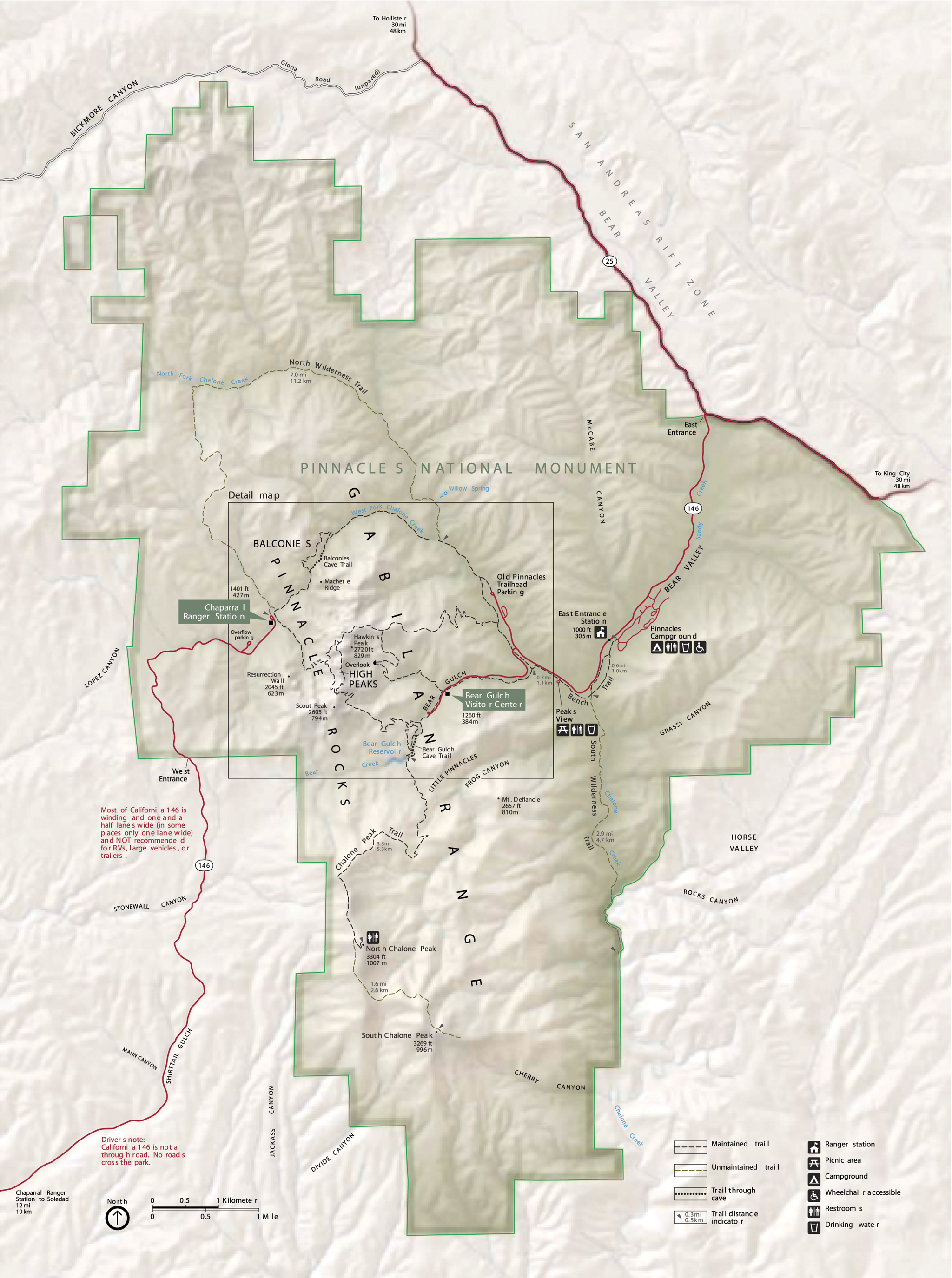 Map of Pinnacles National Monument, California